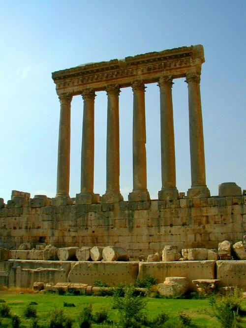 Temple of Jupiter in Baalbek